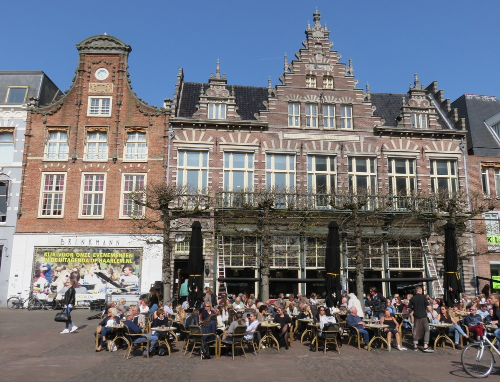 Grand cafe Brinkmann at Grote Markt 13 in Haarlem (right) with the original building right next to it (left)